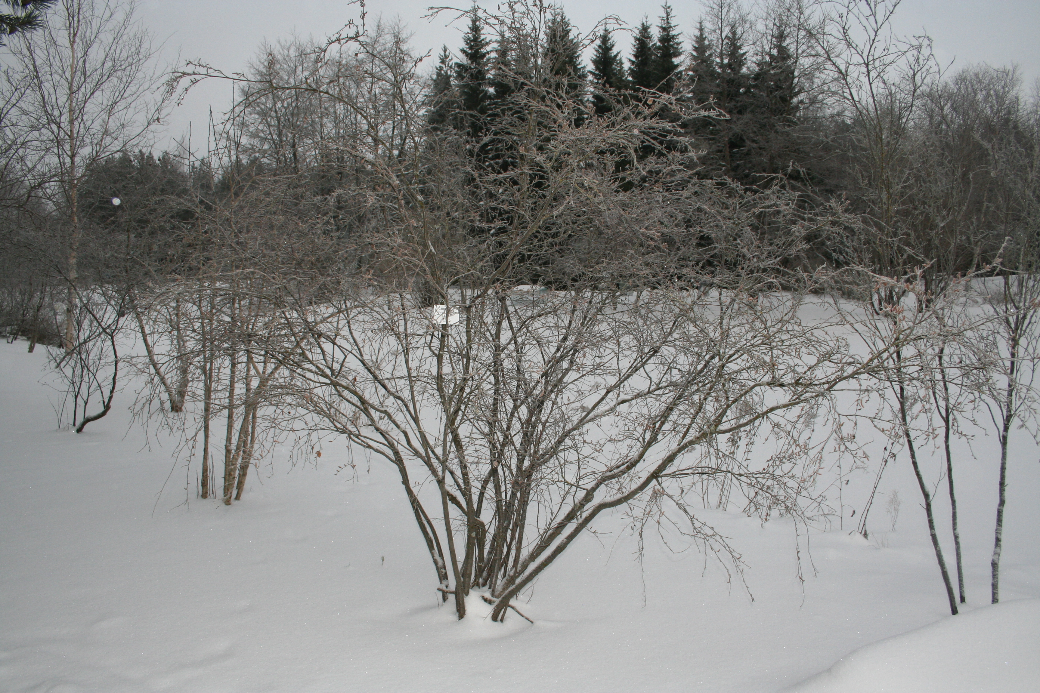 Betula fruticosa in winter. Oulu University Botanical Gardens, Finland.